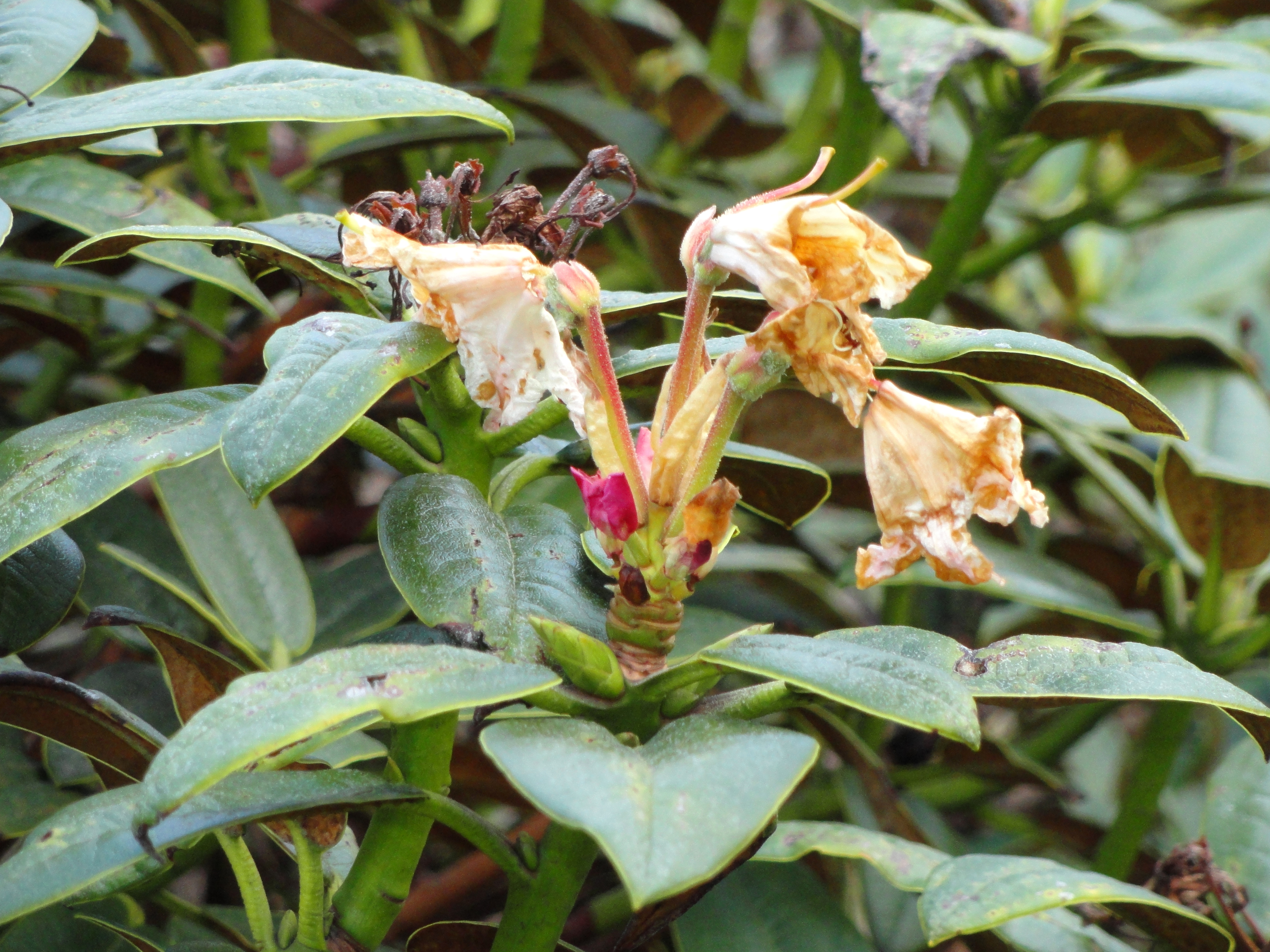 Rhododendron adenogynum specimen in the University of Copenhagen Botanical Garden, Copenhagen, Denmark.